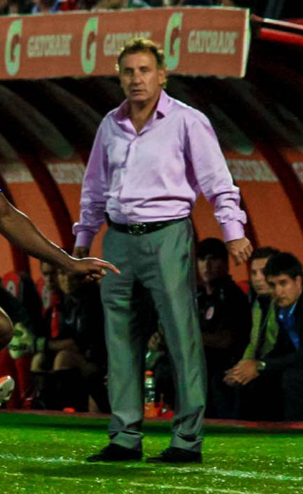 Uruguayan manager and former player Daniel Bartolotta